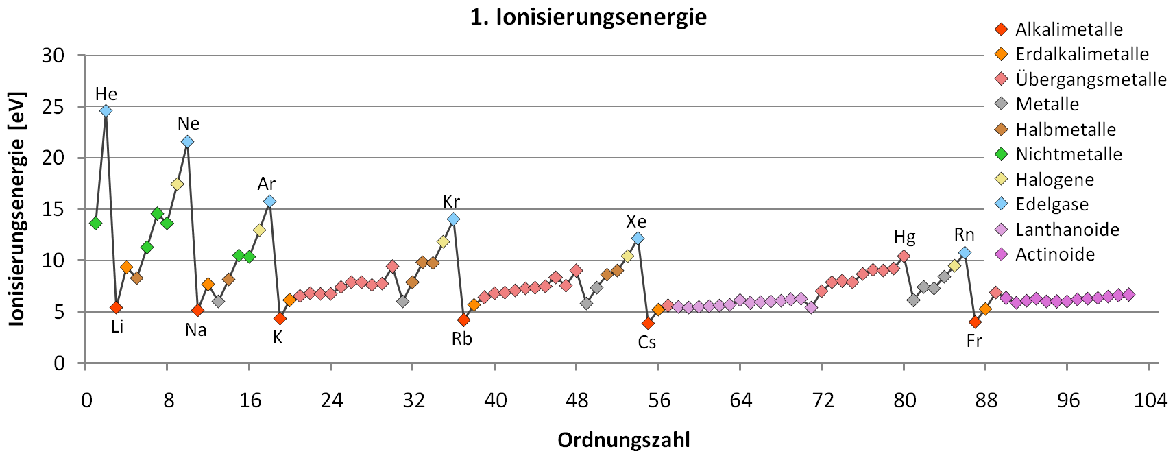 Diagram showing the dependency of the first ionization energy of a chemical element and its atomic number. The diagram is color-coded in accordance with the German Wikipedia chemical element template Template:Infobox Chemisches Element. (Source of the ionization energies